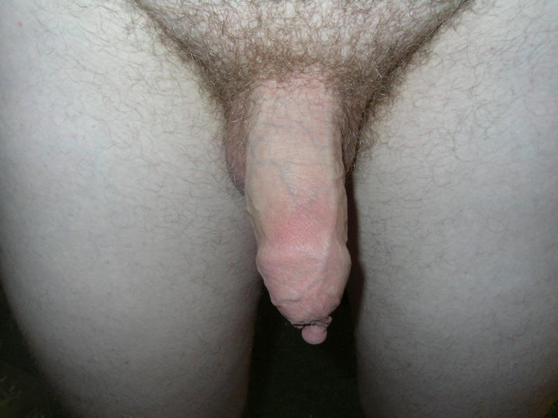 23yo male with phimosis (tight foreskin)